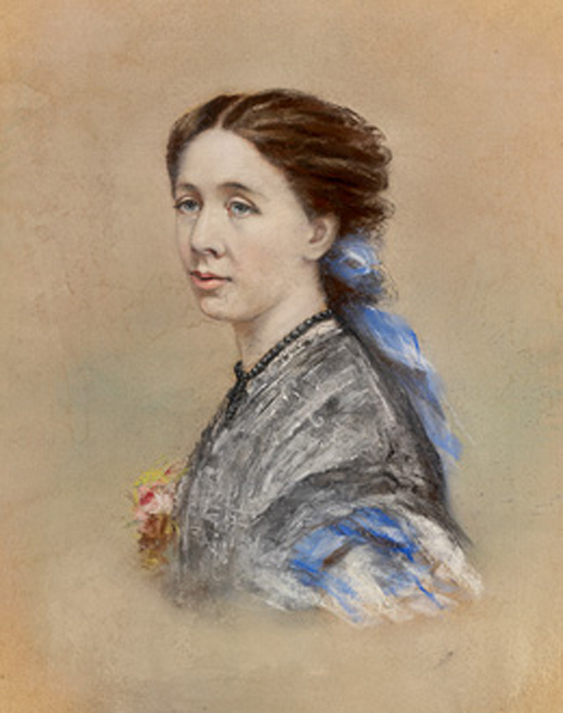 Blanche Mitchell, circa 1860, daughter of Sir Thomas Mitchell